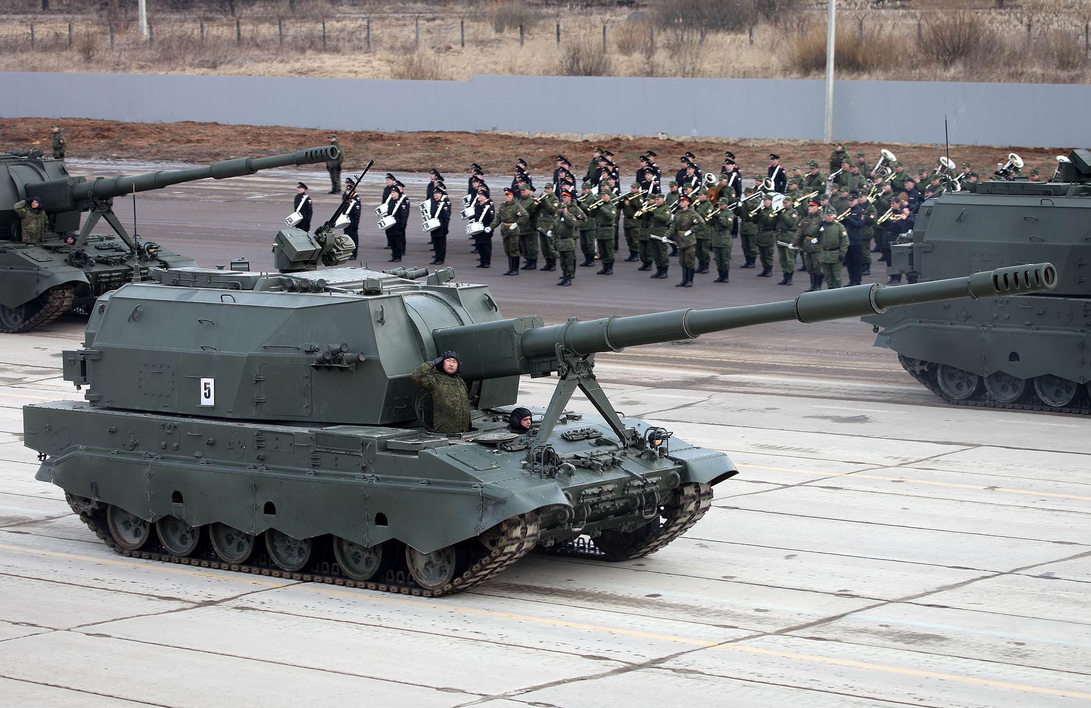 152mm self-propelled gun 2S35 Koalitsiya-SV